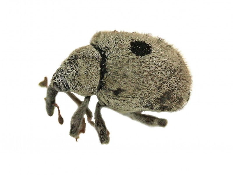 Cionus olens (Curculionidae) - (imago), Molenhoek - NS-terrein, the Netherlands